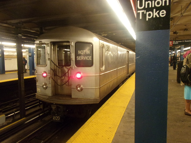 This is a R127 Garbage Train in work service at Kew Gardens – Union Turnpike on November 12, 2014 at 3:48 PM EST